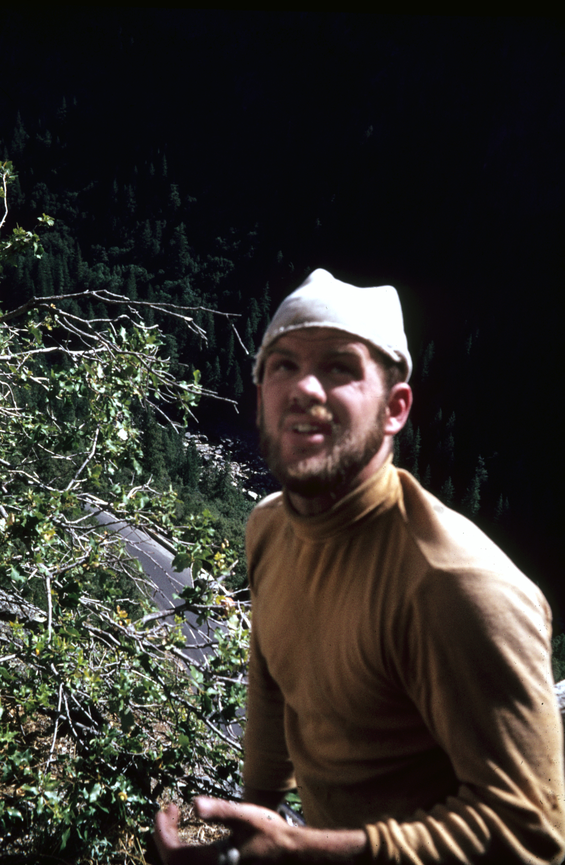 Chuck Pratt examines the "off-width" crack at the top of the Left Side of Reed Pinnacle, Yosemite Valley, fall 1968. Photo by Pat Ament.